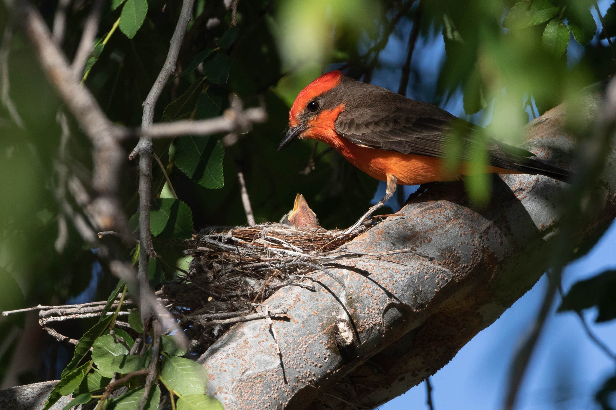 Vermilion Flycatcher Pyrocephalus obscurus male at nest, Himmel Park, Tucson, Arizona. With such a gaudy plumage, it's too risky for the male Vermilion Flycatcher to share in the duty of incubating the eggs, which is left to the better-camouflaged female. But once they hatch he does his share of provisioning the nestlings.